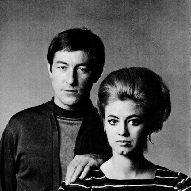 Trade ad for Gene & Debbe's single "Playboy". To better adapt it to his respective Wikipedia article, the ad was cropped and cleaned in a graphics editing program. The original can be viewed at the source below.